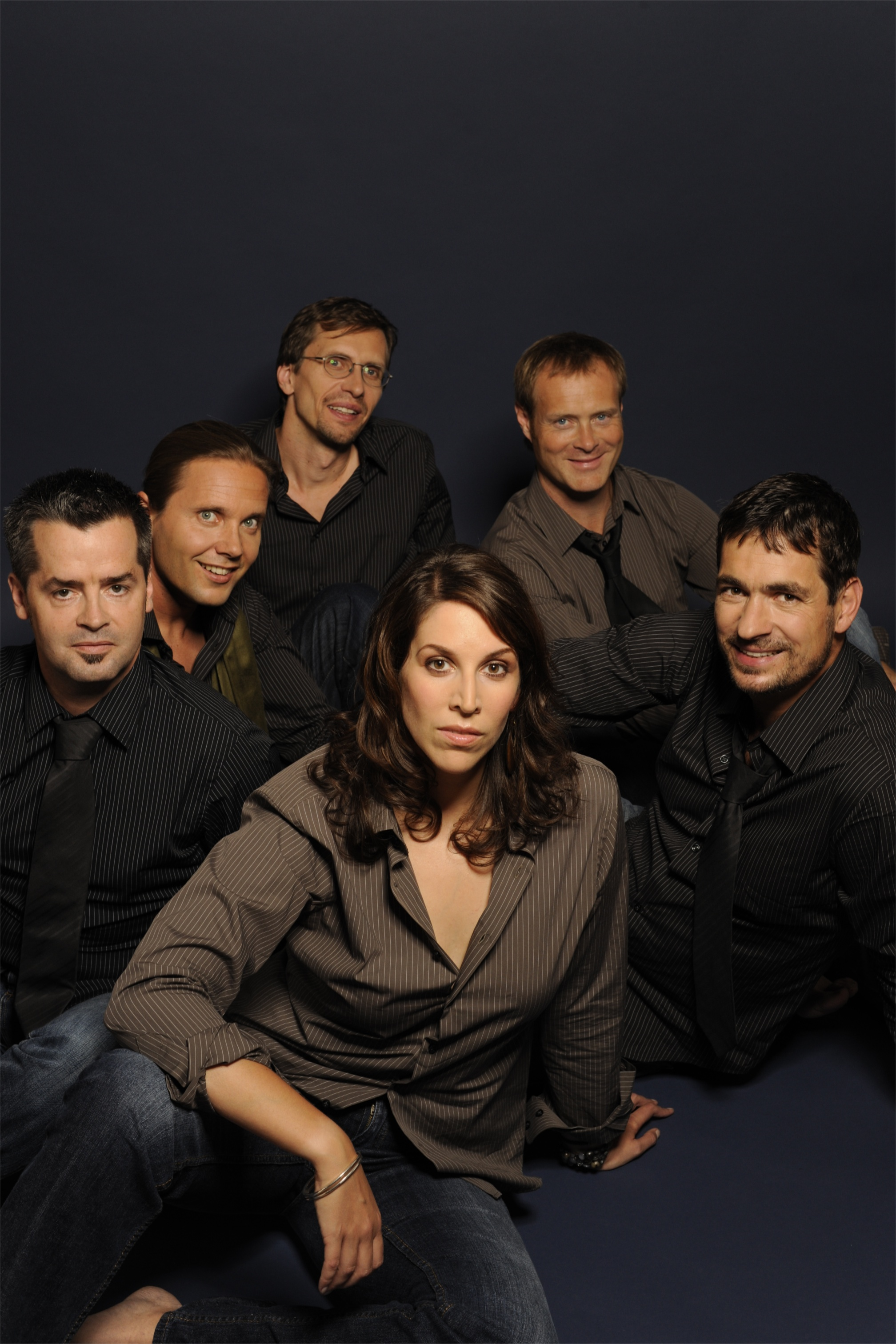 Singer Pur - vocalensemble